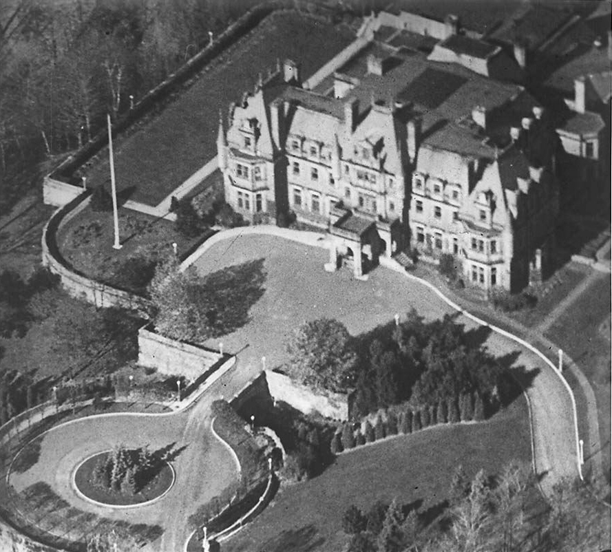 Chorley Park, the official residence of the Lieutenant-Governor of Ontario, as seen from the air. Toronto, Canada.